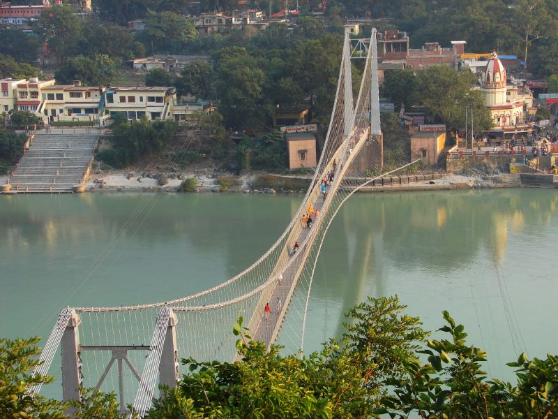 In the Himalayas, in general the term Jhula is used to denote a hanging or cantilever bridge. The bridge shown here is at Rishikesh at the foothills of the Himalayas. It is named after Lord Rama. It is also known as SHIVANANDA Jhula or bridge.Incidentally, there is another similar hanging bridge over the Ganga few kilometres upstream, called LACHHMANJHULA (named after the younger brother of Lord Rama). Previously such bridges were built of ropes, but now-a-days steel cables are in use.